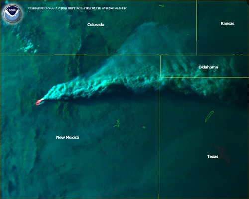 A satellite photo taken on May 11, 2000, of the Los Alamos (Cerro Grande) forest fire. (National Oceanic and Atmospheric Administration [NOAA], U.S. Dept. of Commerce). The image was obtained from